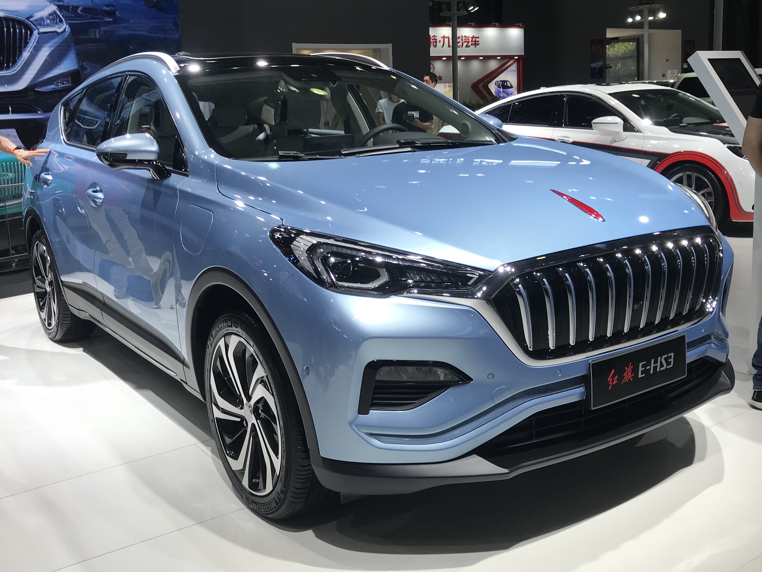 Hongqi E-HS3 front